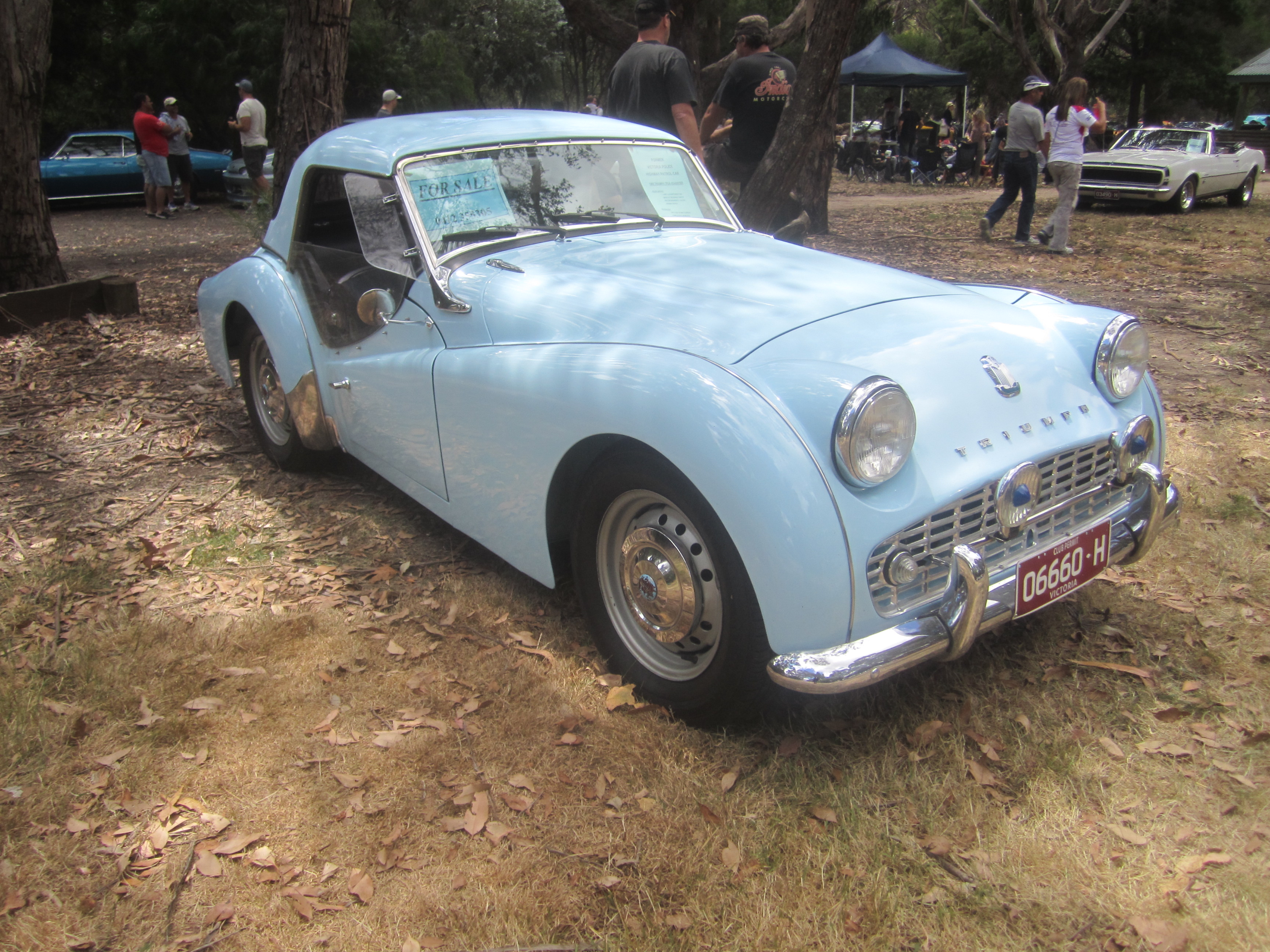 The original and only 1952 Triumph TR1 was a prototype, The better looking and longer 1953 TR2 with the Standard Vanguard 1991cc 4 cyl engine was the 1st production car. The TR3 got more power and a new grille and was built from 1955-62 as an open 2 seater, still with the 1991cc 4 cyl. The 1957 TR3a got a wider grille and exterior door handles. The 1962 TR3b was run for a short time, concurrent with the TR4, it got the TR3 body with the TR4 2134cc 4 cyl engine. (It had bolts holding the windscreen instead of connectors). This particular car is a former Victorian Police Patrol Car based in Brunswick in 1960.